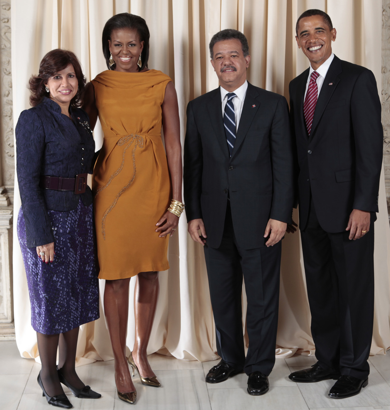 President Barack Obama and First Lady Michelle Obama pose for a photo during a reception at the Metropolitan Museum in New York with Leonel Fernandez Reyna, President of the Dominican Republic, and H.E. First Lady Margarita de Fernandez.